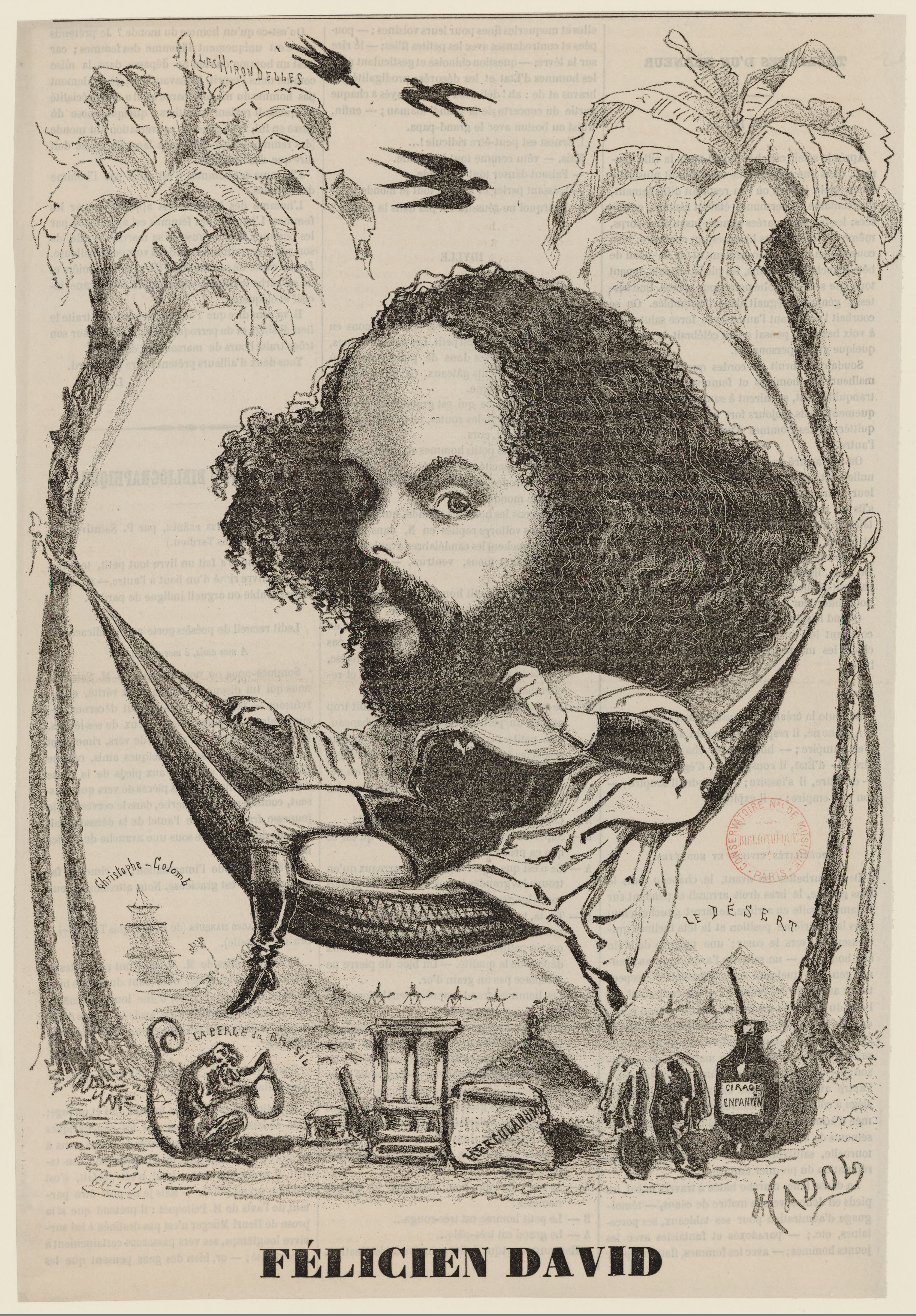 Félicien-César David (1810-1876), Theatrical illustration of the French composer